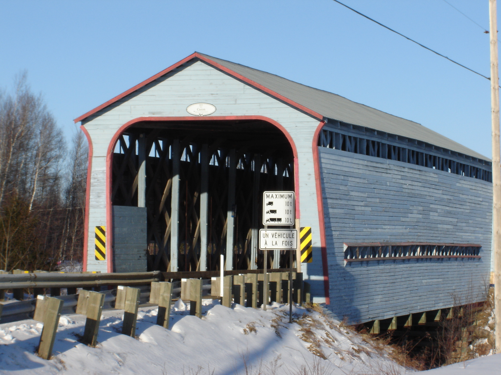 Caron bridge, Val-Alain (Quebec). Covered bridge built in 1933